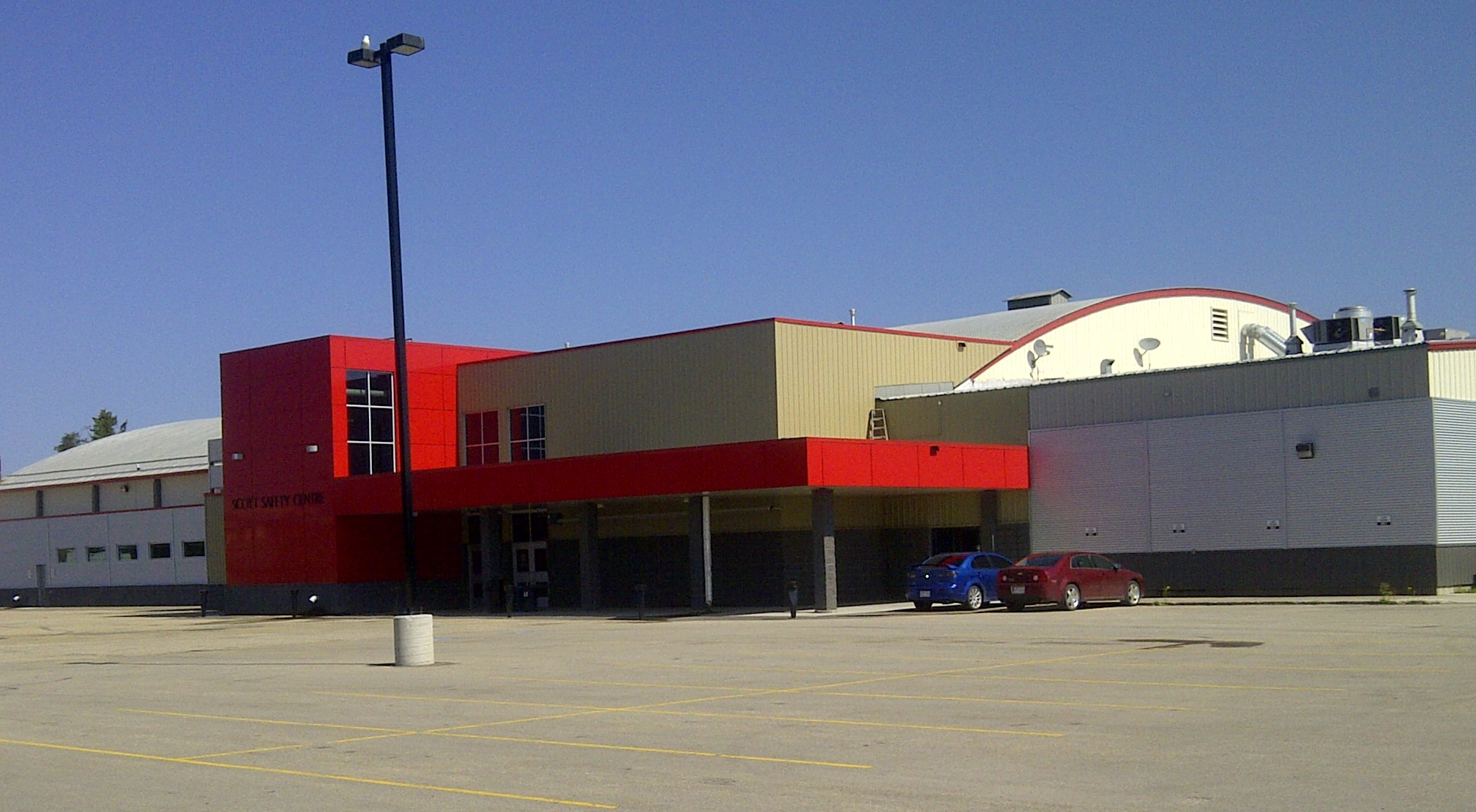 The Scott Safety Centre in Whitecourt, home of the Whitecourt Wolverines of the AJHL